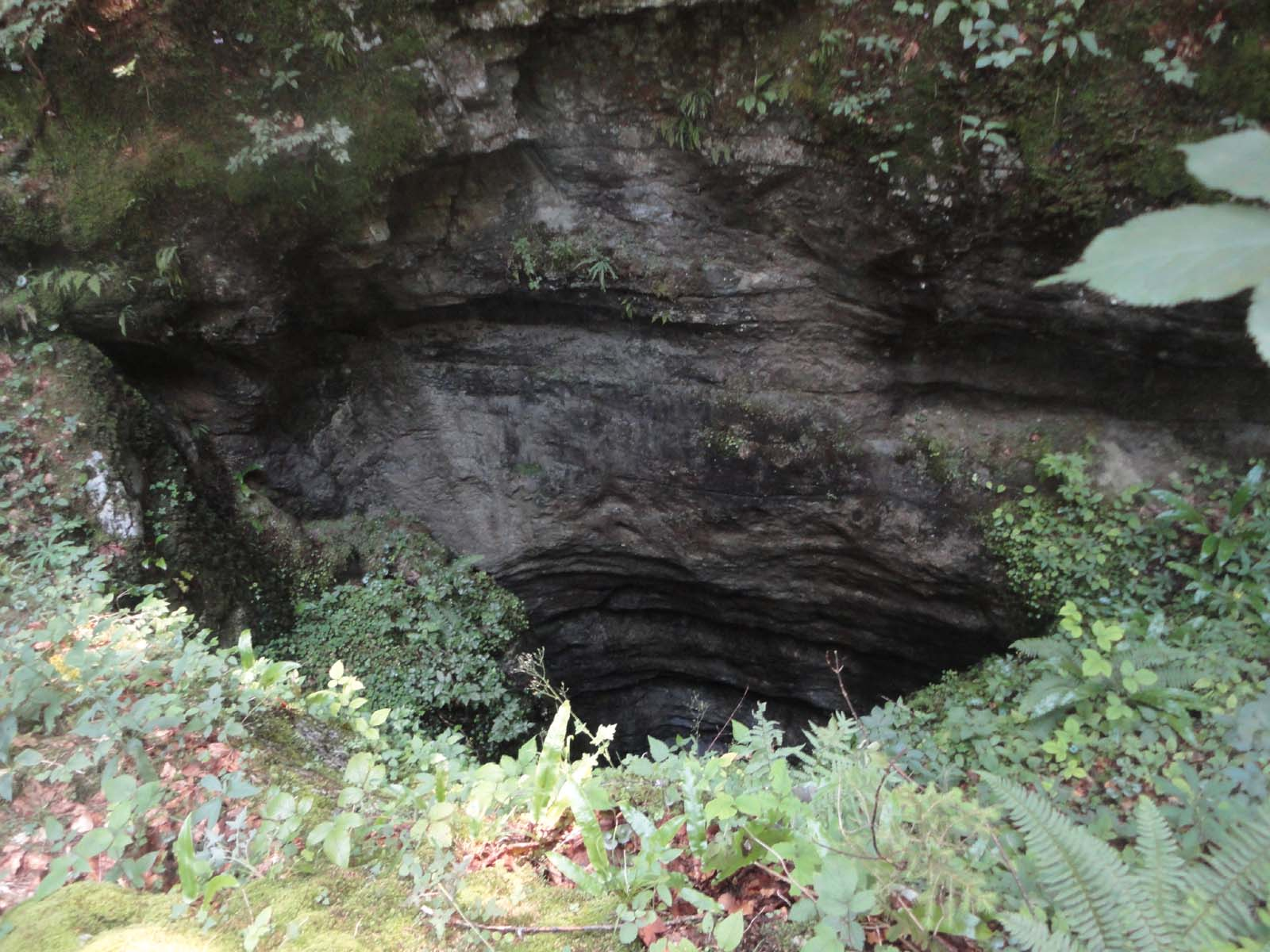 Double Cave near Zinc Cross (Dvojno brezno pri Cink križu) in Kočevski Rog (Slovenia) at the site of mass murder of Slovenian domobrans, Ustasha and Chetniks by Jugoslav partisans after WWII (May and June 1945).